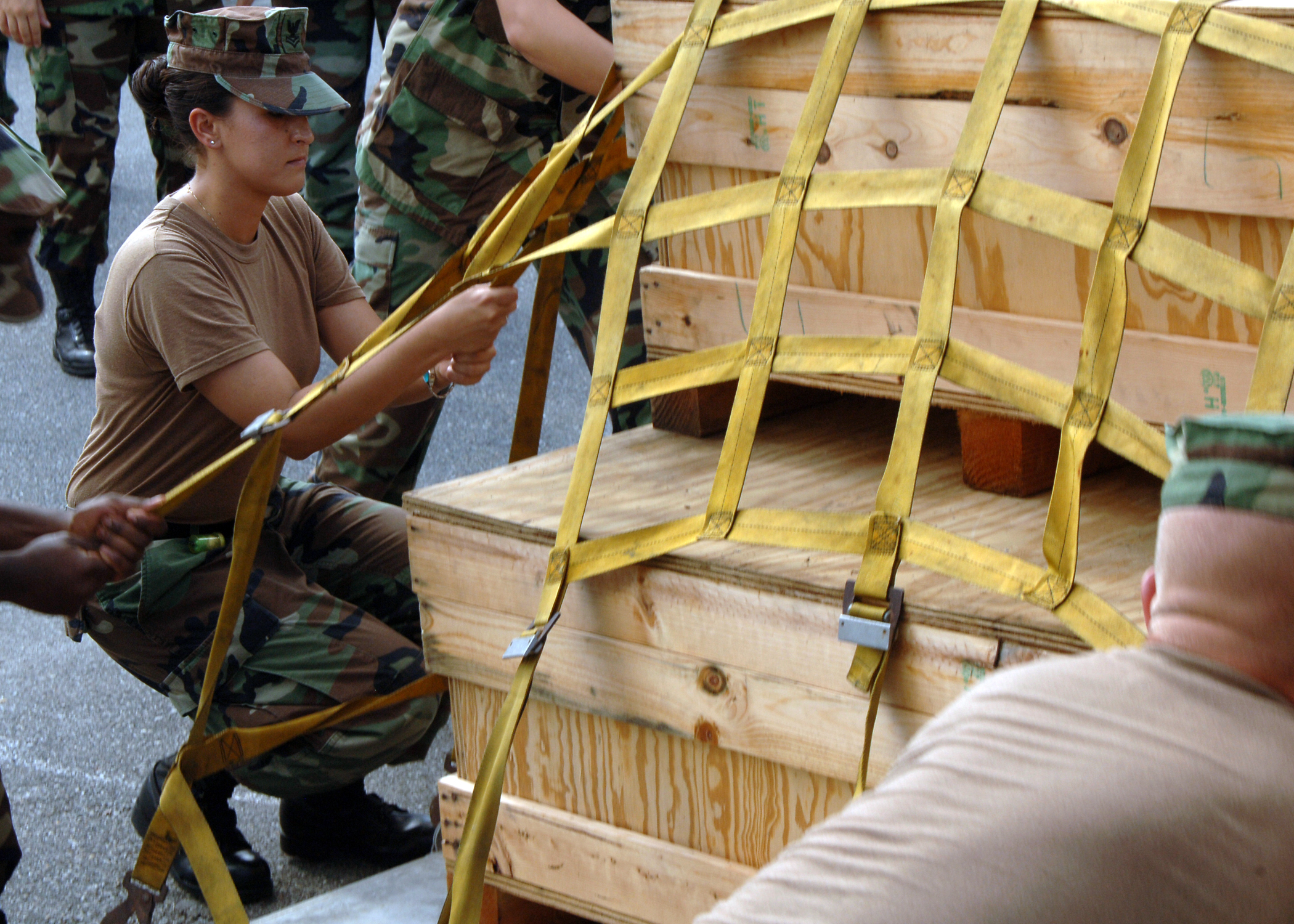 OKINAWA, Japan (Aug. 9, 2008) Store Keeper 2nd Class Christina C. Richardson, assigned to Naval Mobile Construction Battalion (NMCB) 133, secures the strap of a pallet during a training exercise at Camp Shields, Okinawa, Japan. Richardson is part of a team competing to correctly tie down a pallet in the shortest amount of time. (U.S. Navy photo by Mass Communication Specialist 3rd Class Jeffrey R. Militzer/Released)